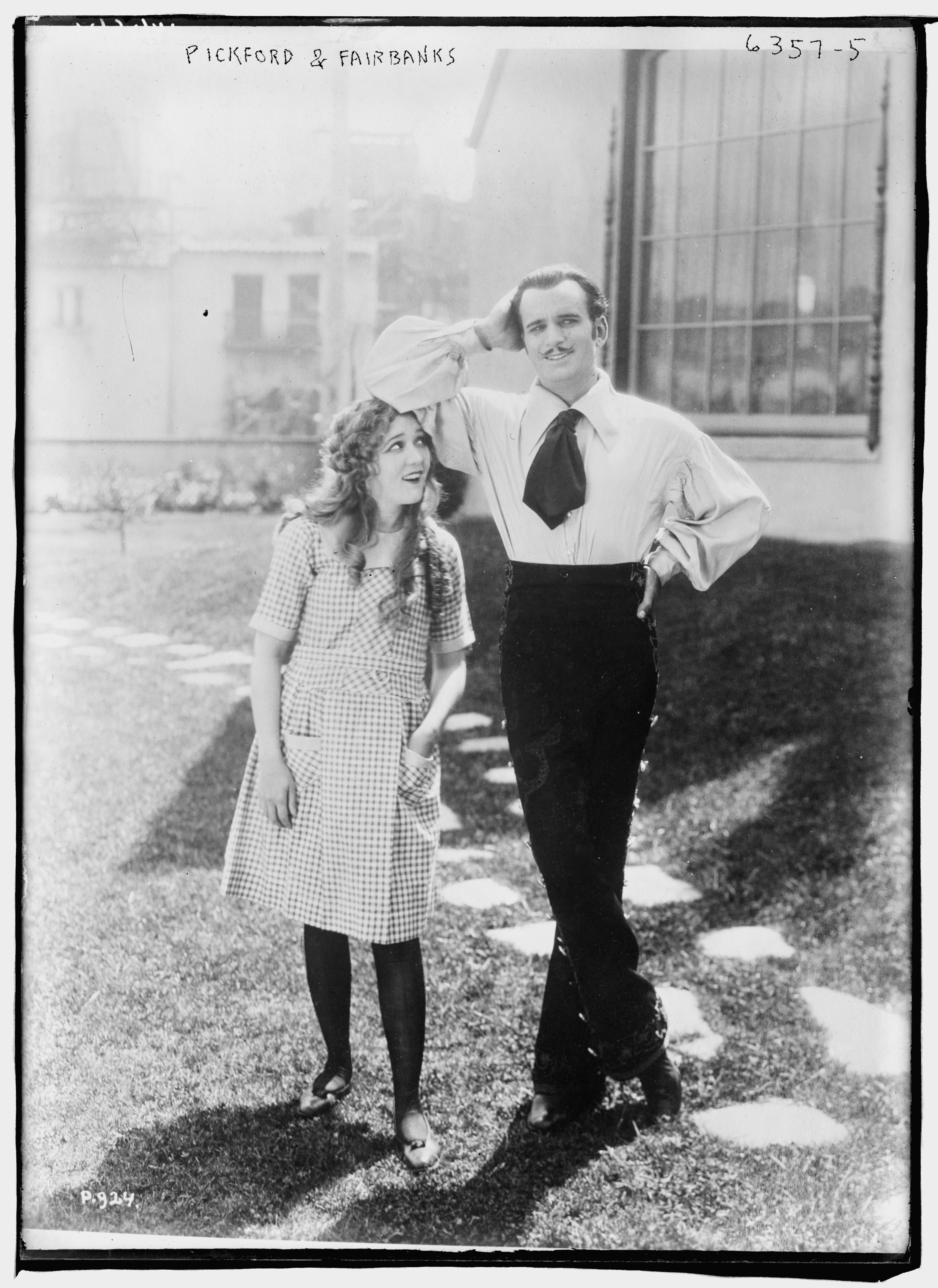 Title: Pickford and Fairbanks Abstract/medium: 1 negative : glass ; 5 x 7 in. or smaller.